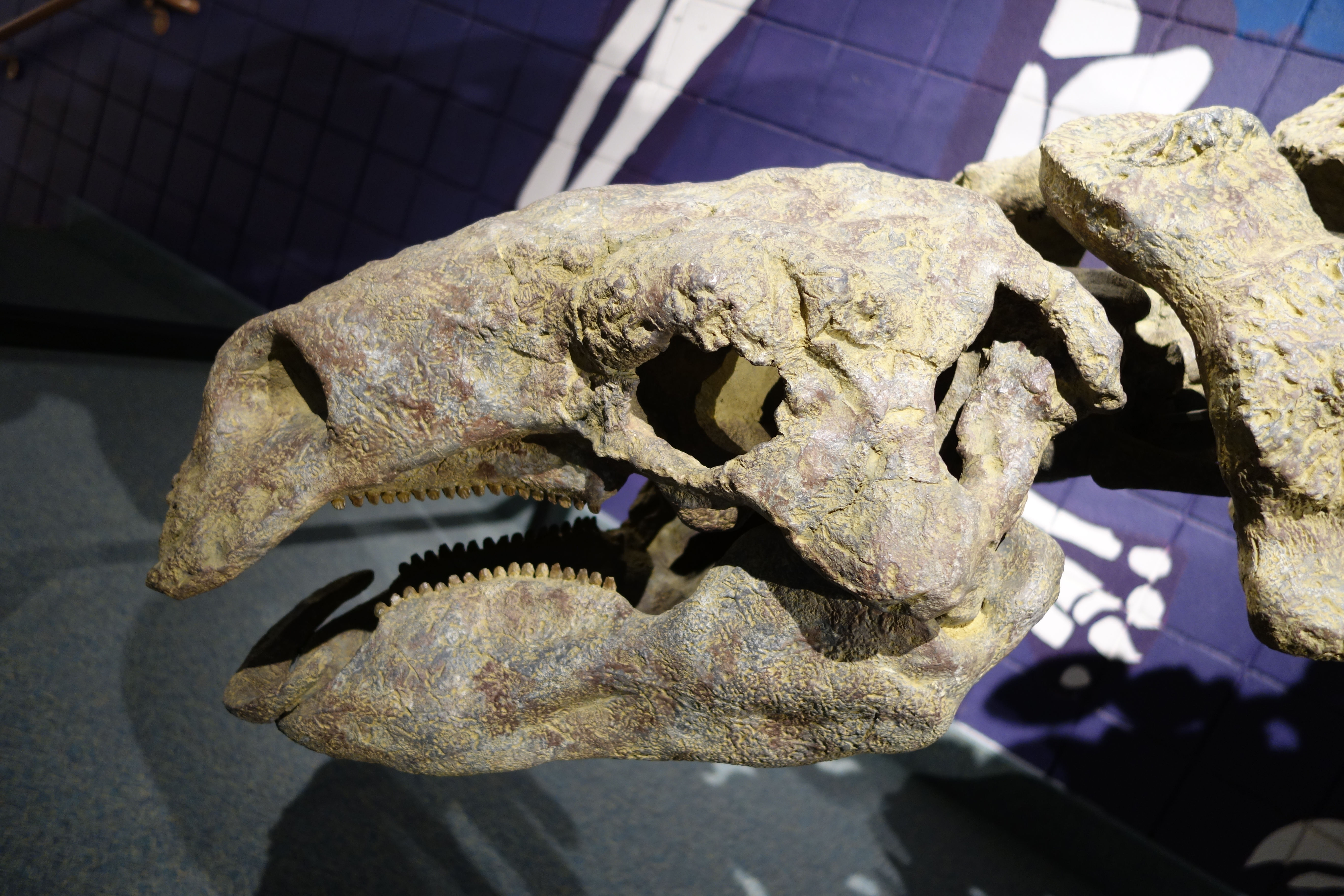 Peloroplites cedrimontanus, detail of skull. On display at the USU Eastern Prehistoric Museum, Price, Utah (US).